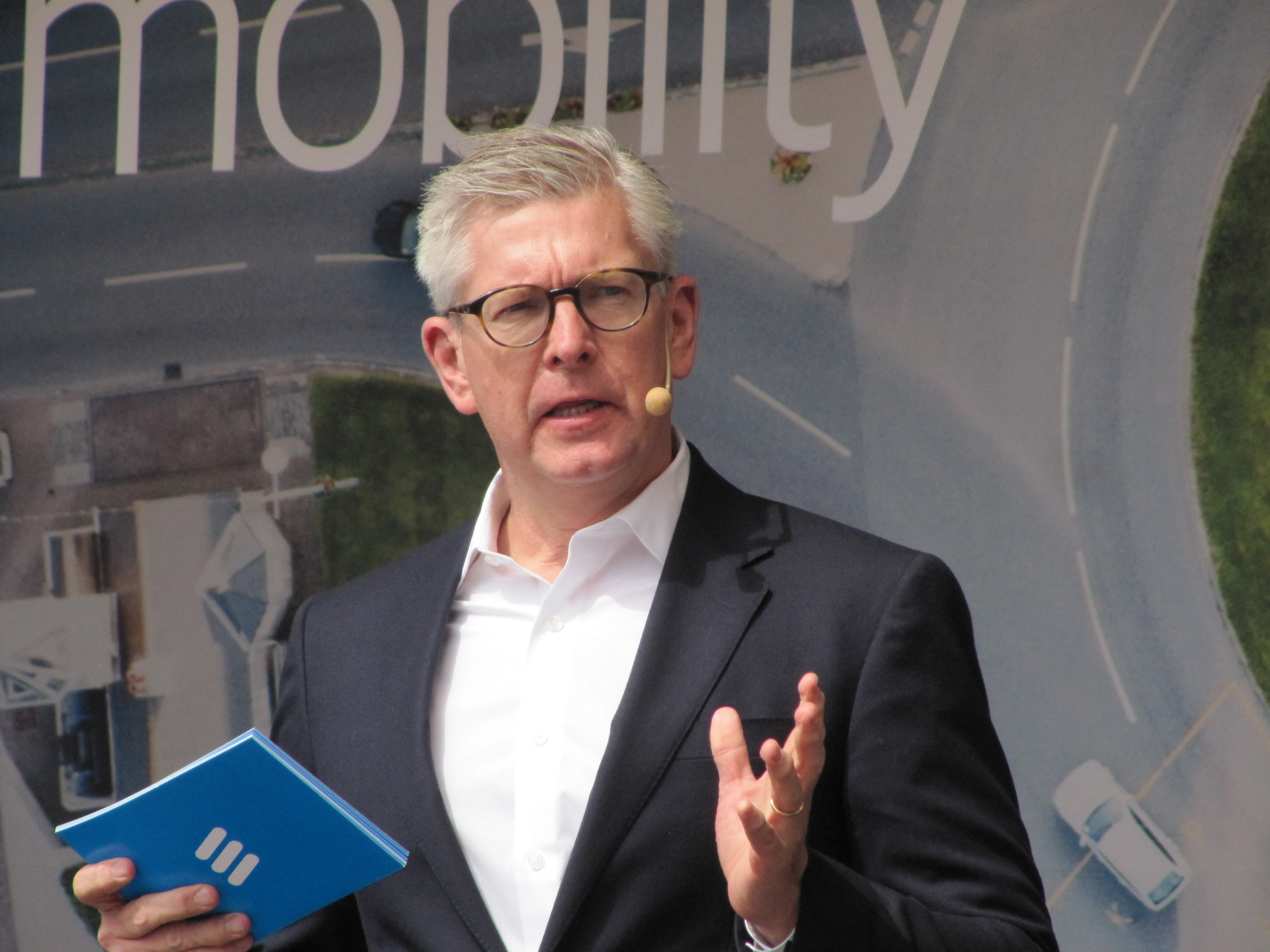 Börje Ekholm, CEO of Ericsson, speaks at Kista Mobility Day.